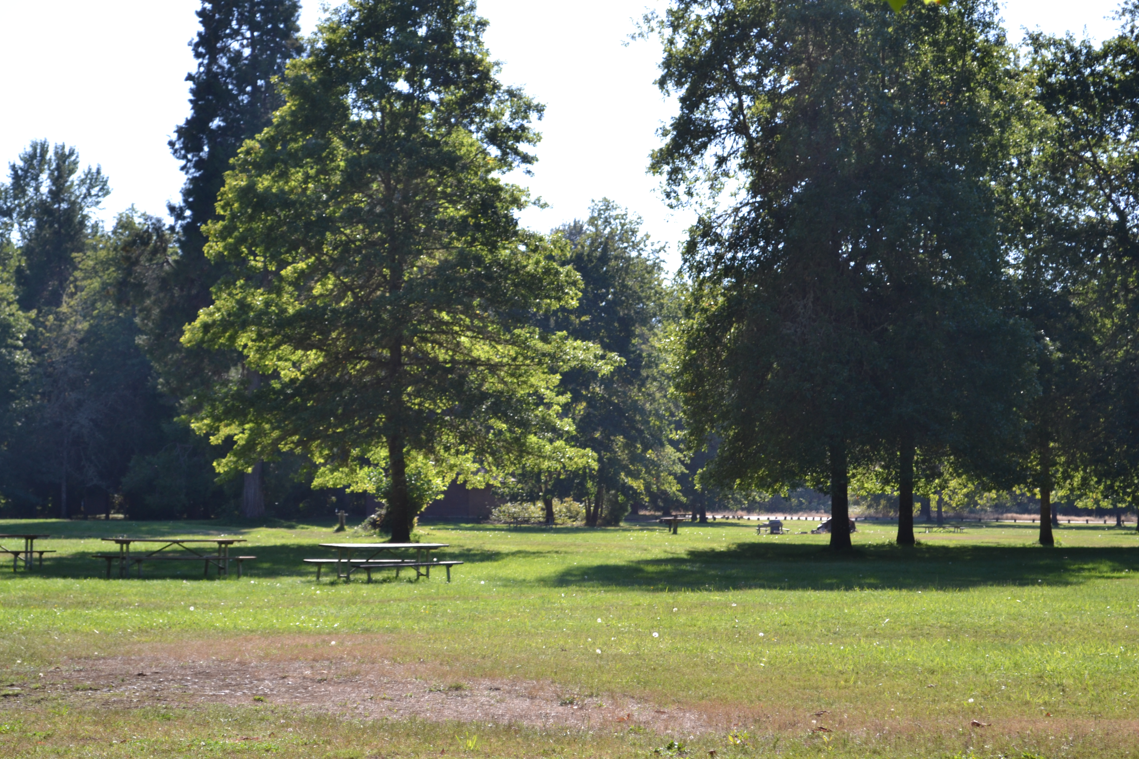 Elijah Bristow State Park picnic area (Pleasant Hill, Oregon)